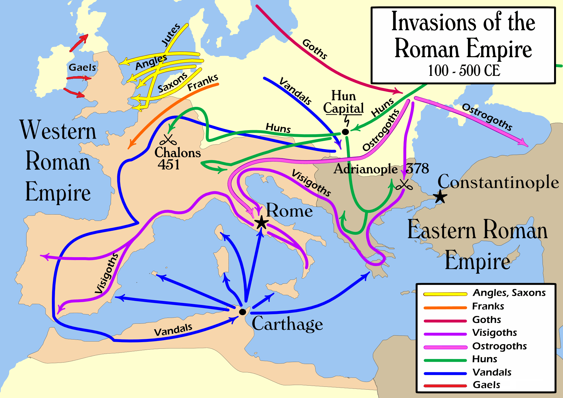 Map of the "barbarian" invasions by the Angles, Saxons, Jutes, Franks, Goths, Visigoths, Ostrogoths, Huns and Vandals of the Roman Empire showing the major incursions from 100 to 500 CE. References Cornell, Tim; Matthews, John (1982), Atlas of the Roman World, Facts on File, NY, ISBN: 0871966522. Ermatinger, James W; (2004) Decline and Fall of the Roman Empire, Greenwood Pub Group, NY, ISBN: 0313326924. Various, Historical Atlas of the World, 1970, Barnes & Noble, NY. Ancona,Francis Atlas Of The World,1999,Barnes e Noble,NY